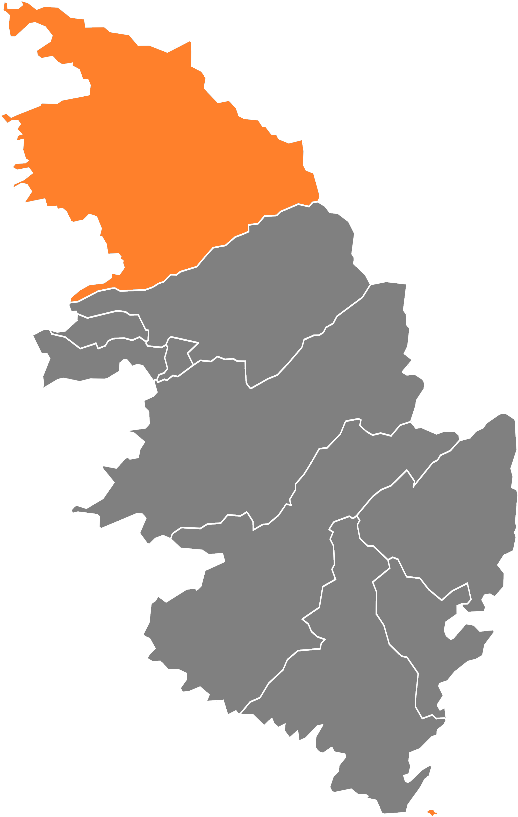 Canton de Sevi-Sorru-Cinarca territory in 2015 on the Corse-du-Sud department map